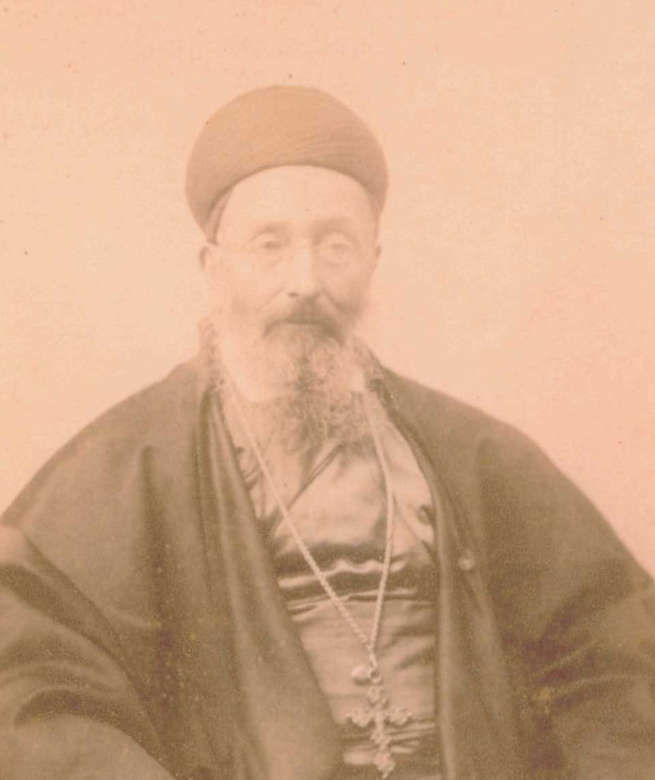 Abbas al-Dahdah (d. 1890), a confident of Pope Pius IX, who became Maronite archbishop of Damascus under the name Nomatalla